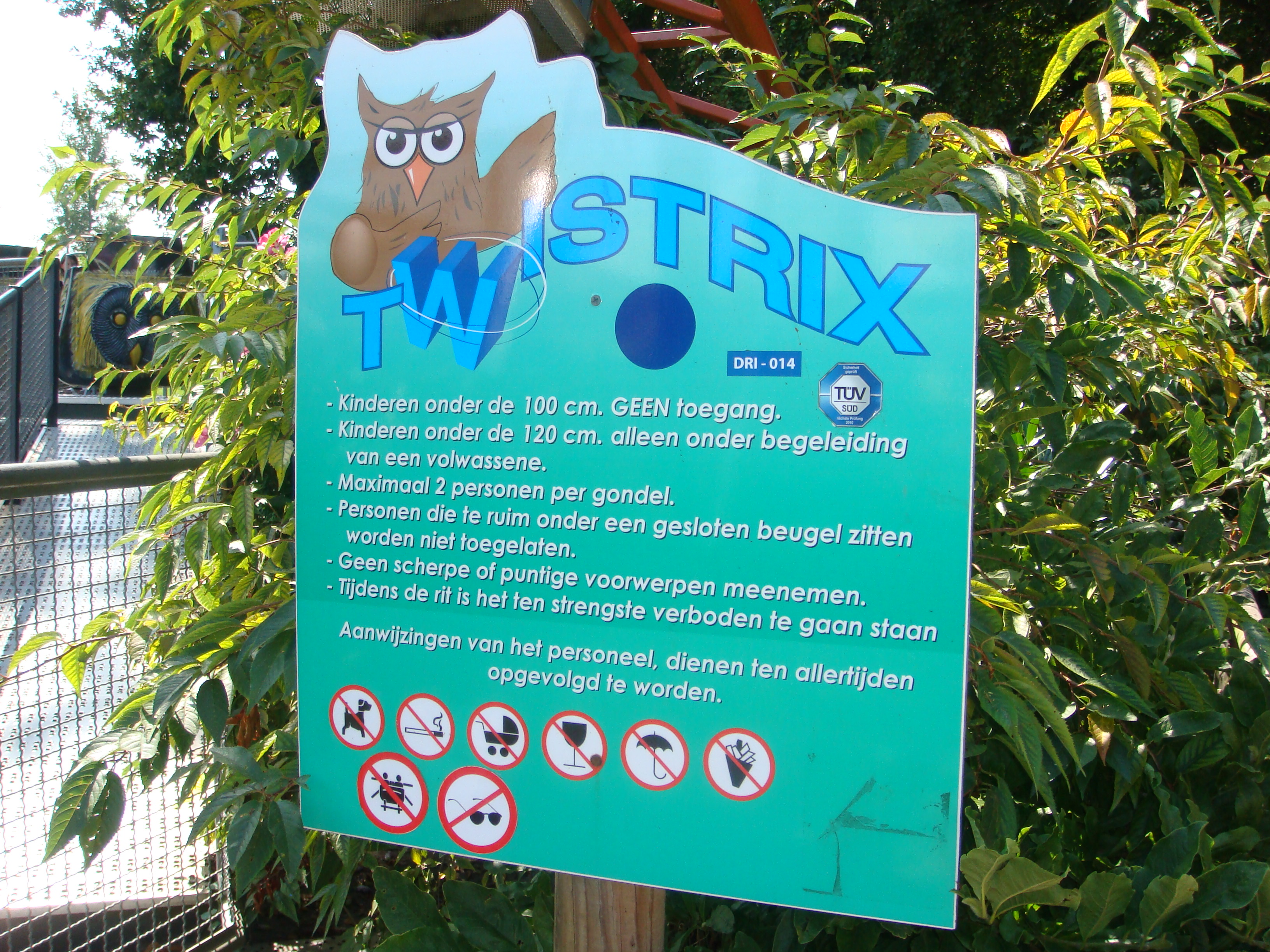 The steel roller coaster Twistrix at Drievliet at The Netherlands.